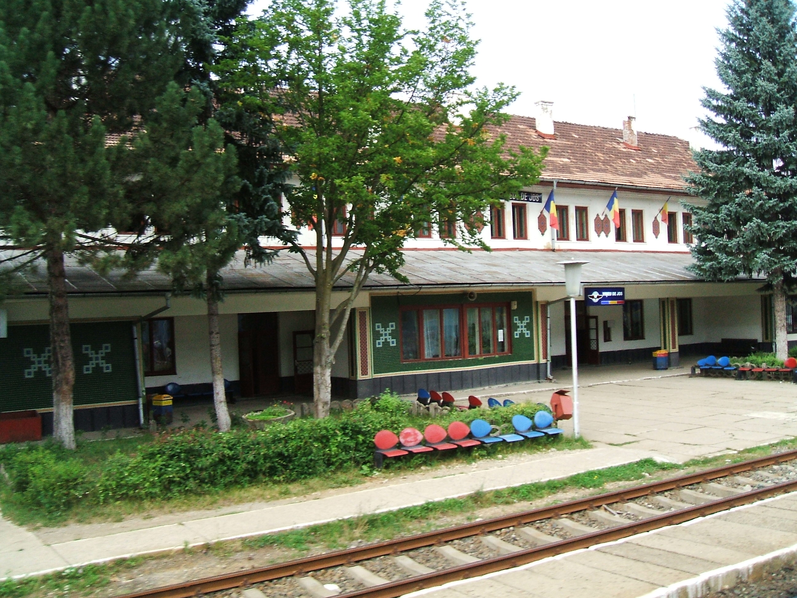 Vişeu de Jos train station